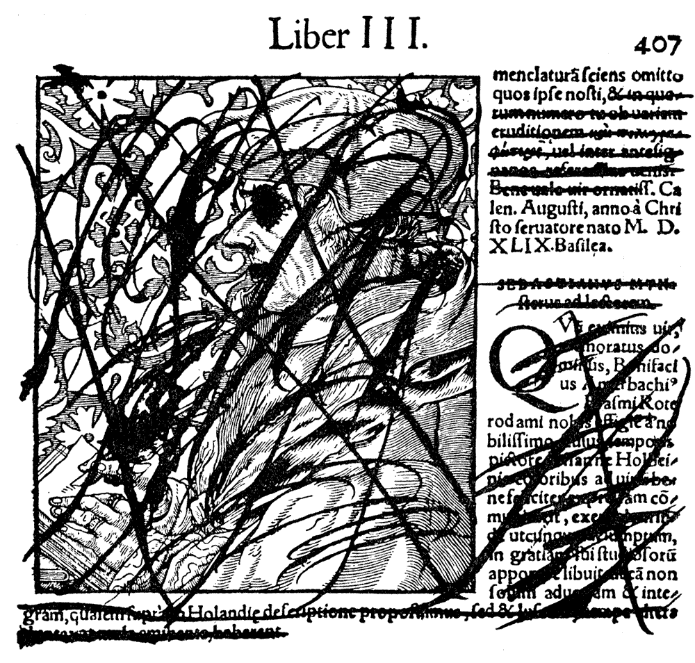 Erasmus of Rotterdam censored by the Index Librorum Prohibitorum